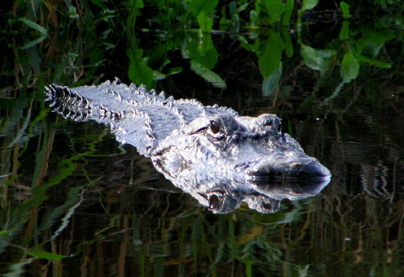 Alligator - Myakka River State Park. Taken by User:Mwanner, 13 February, 2007.